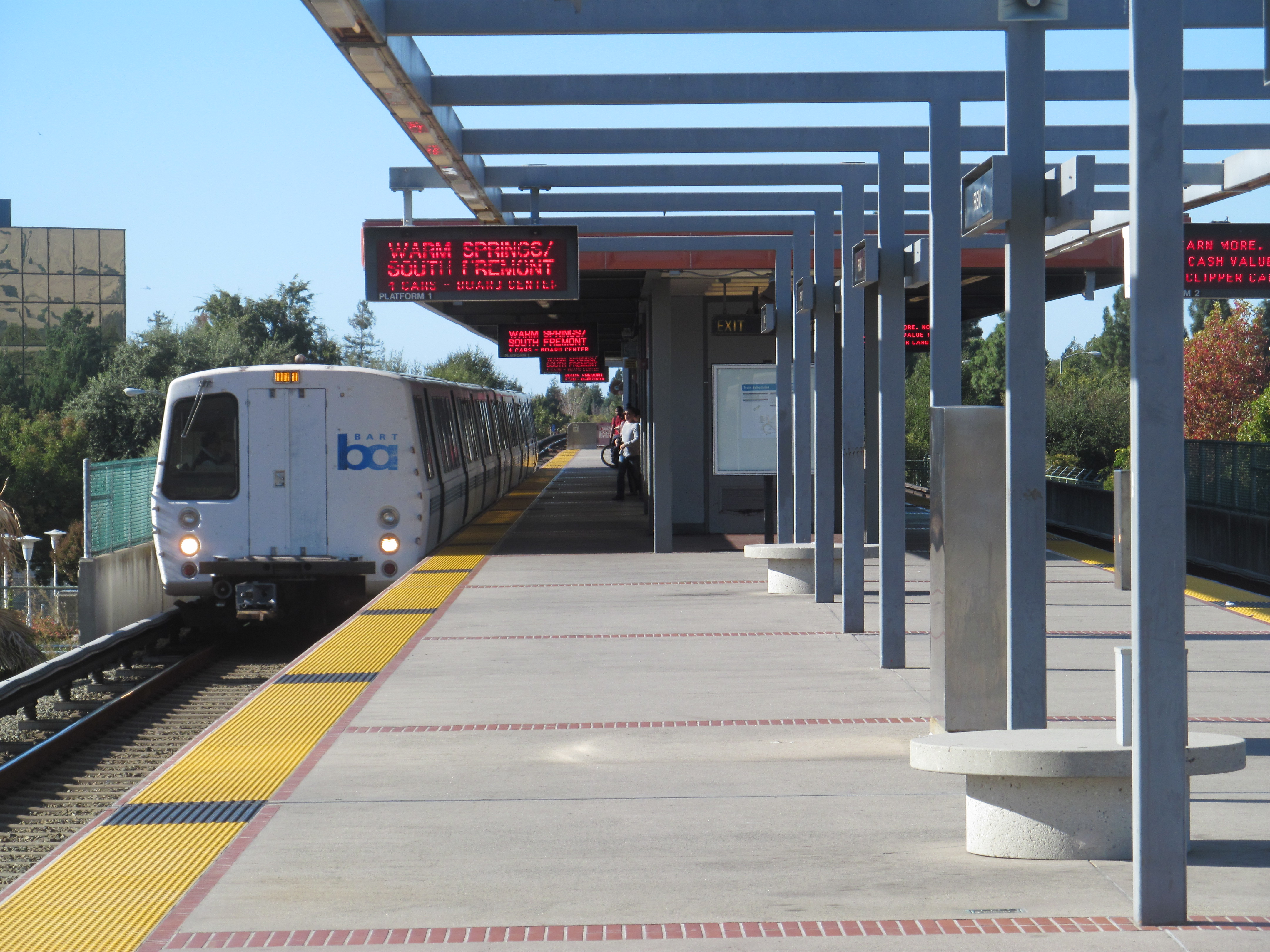 Southbound train at Fremont station in October 2017